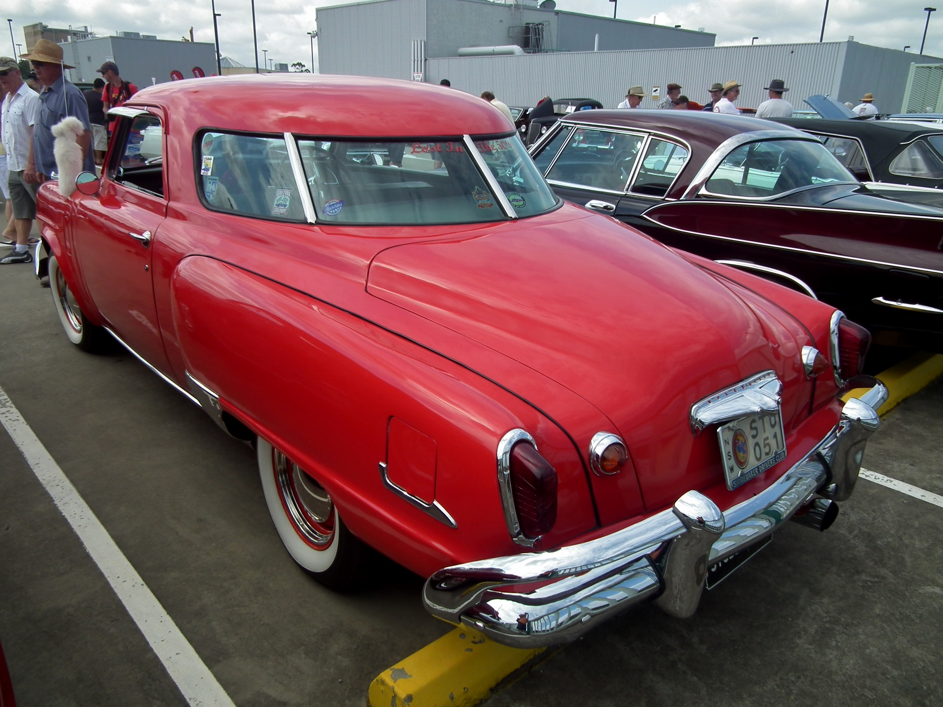 1951 Studebaker Champion Starlight coupe. Taken at the 2014 New South Wales All American Day, held at Castle Towers Shopping Centre, Castle Hill, Sydney.